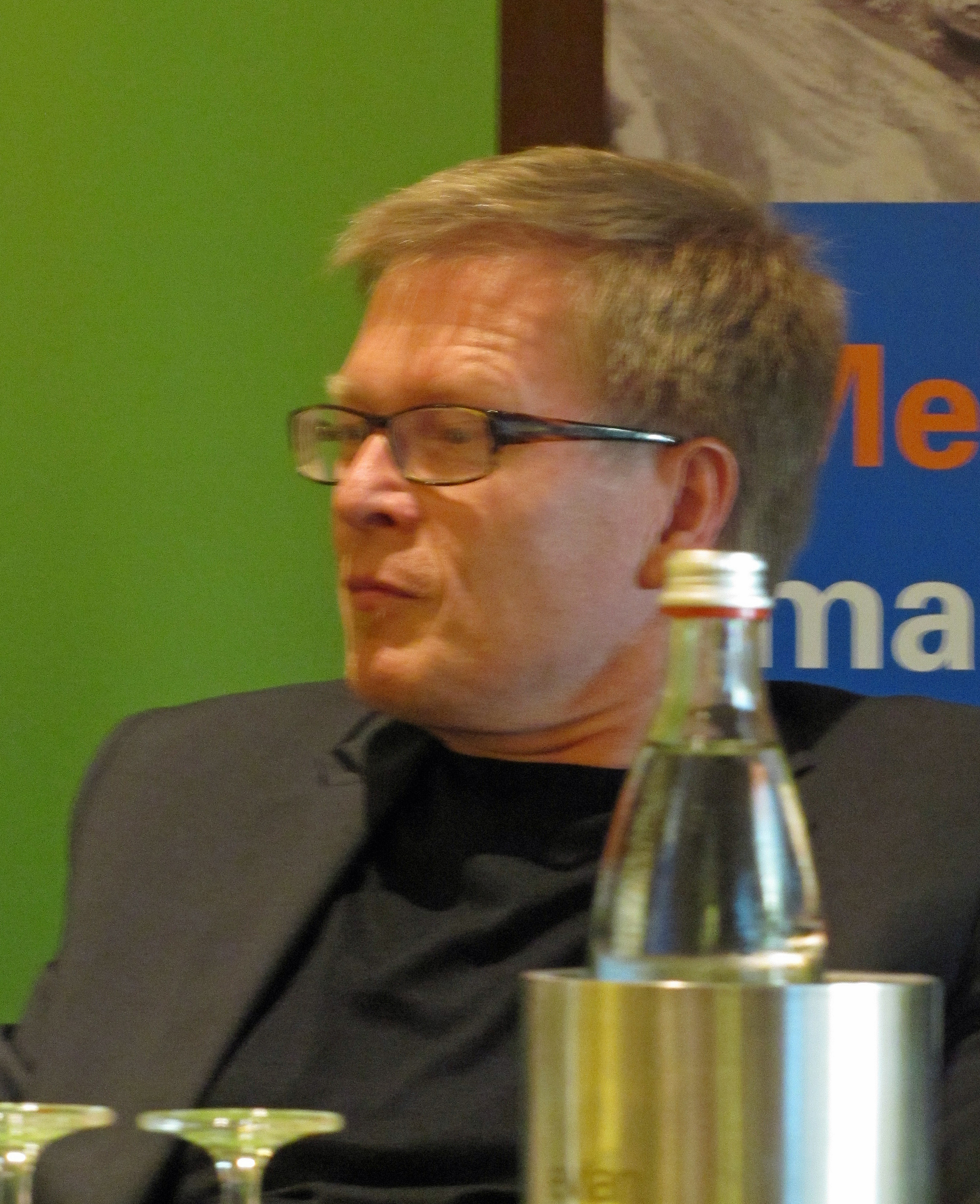 Paulus Hochgatterer, Austrian writer and psychiatrist, 2010 in Frankfurt am Main, Germany.